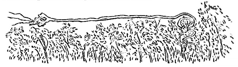 Myndie as drawn by an Aboriginal, and it tallies with pictures made by men of other tribes. Myndie is a mythological serpent of the Aborigines of Victoria. (As reproduced as figure 246, p. 446 in "The Aborigines of Victoria")